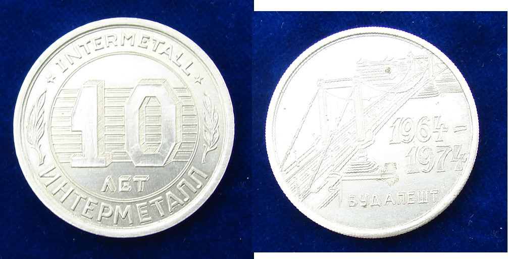 Cu/Ni medallion, d. = 36 mm. Medallion commemorating the 10th Anniversary of Intermatall, an affiliated agency of Comecon for the iron and steel production behind the iron curtain. In circle 2 lines: "10 ДЕТ", around: "* INTERMETALL * ЙНТЕРМЕТАДД" / The new cable bridge replacing in 1964 the original Budapest Elisabeth Bridge that had been destroyed in WW2. R. in 3 lines: "1964 - 1974 ЪЧДАПЕШТ" Condition: UNCIRCULATED.